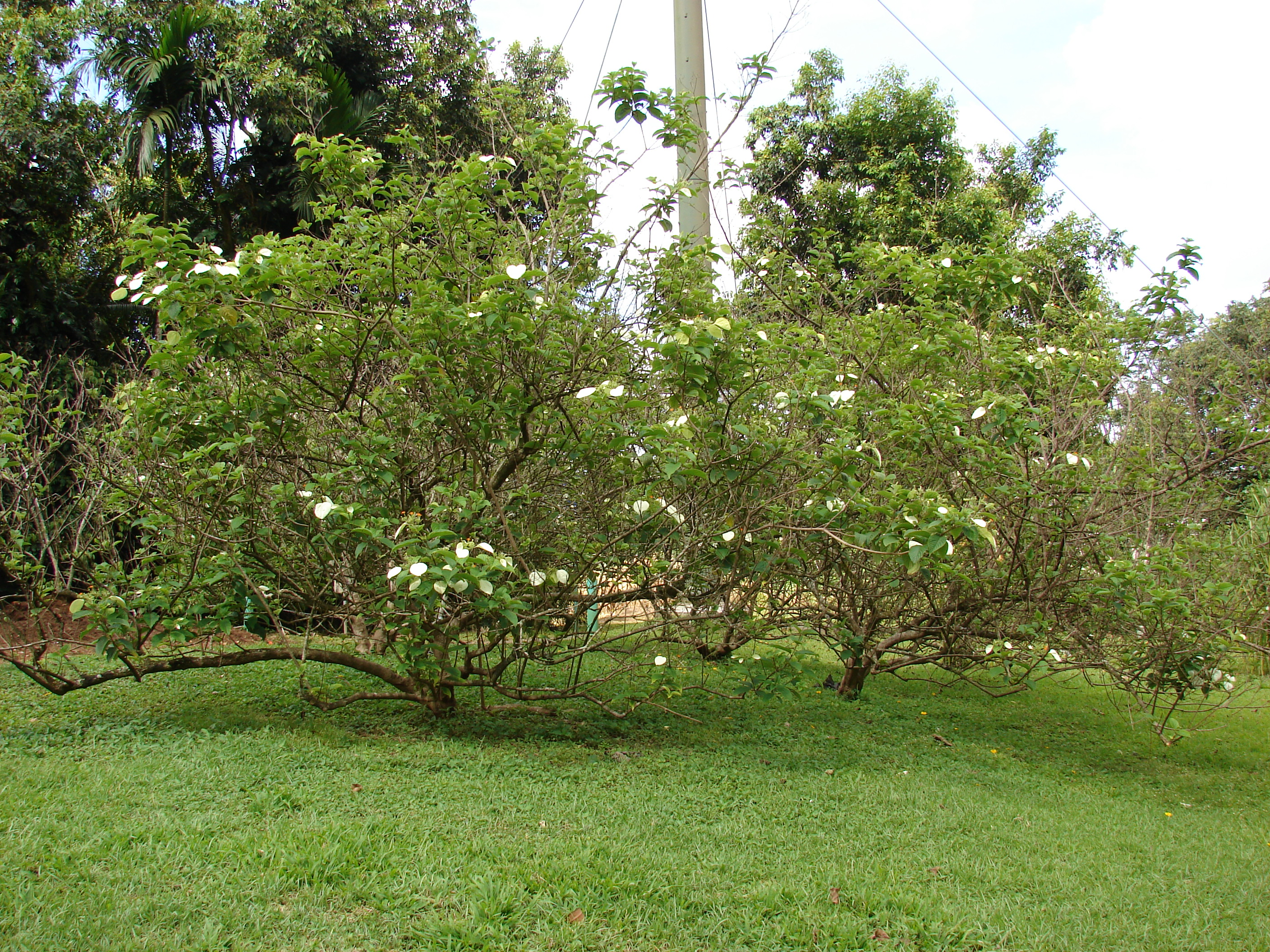 Mussaenda frondosa (habit with white and green leaves). Location: Oahu, Hoomaluhia Botanical Garden